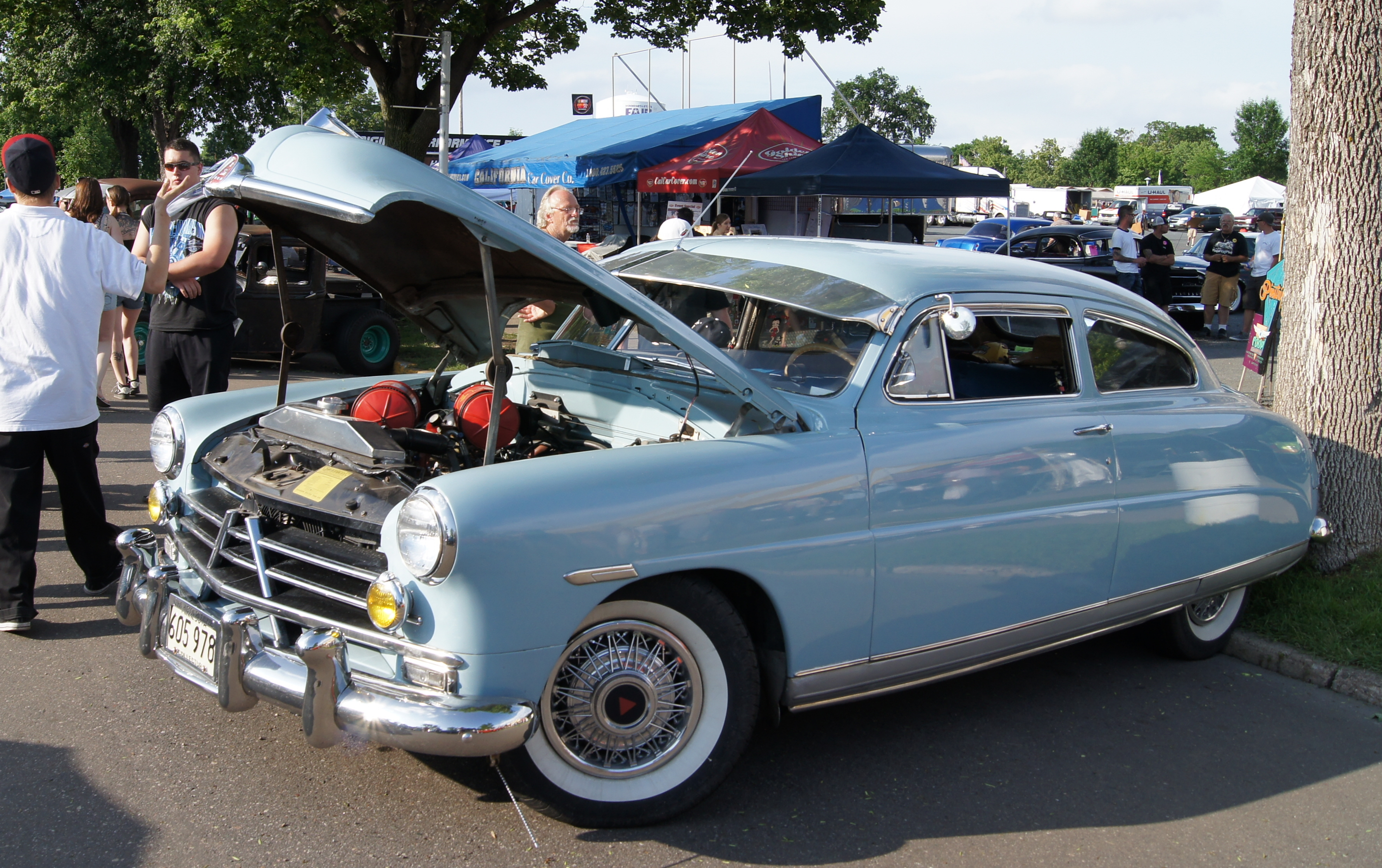 MSRA “BACK TO THE 50′s” 40th ANNIVERSARY June 21-23, 2013 State Fairgrounds St. Paul Minnesota More Car Pictures